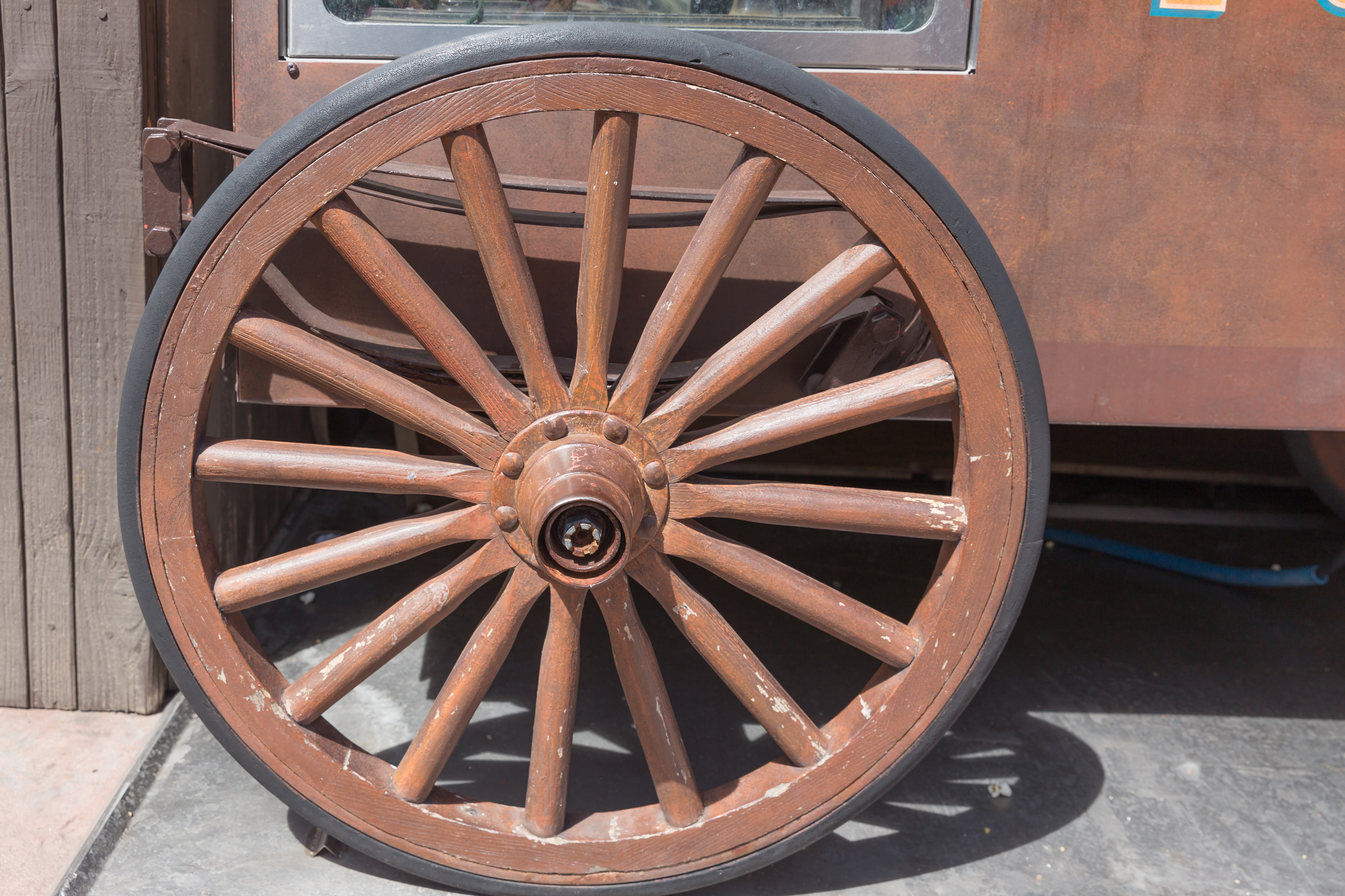 Wagon wheel to Disneyland Paris.